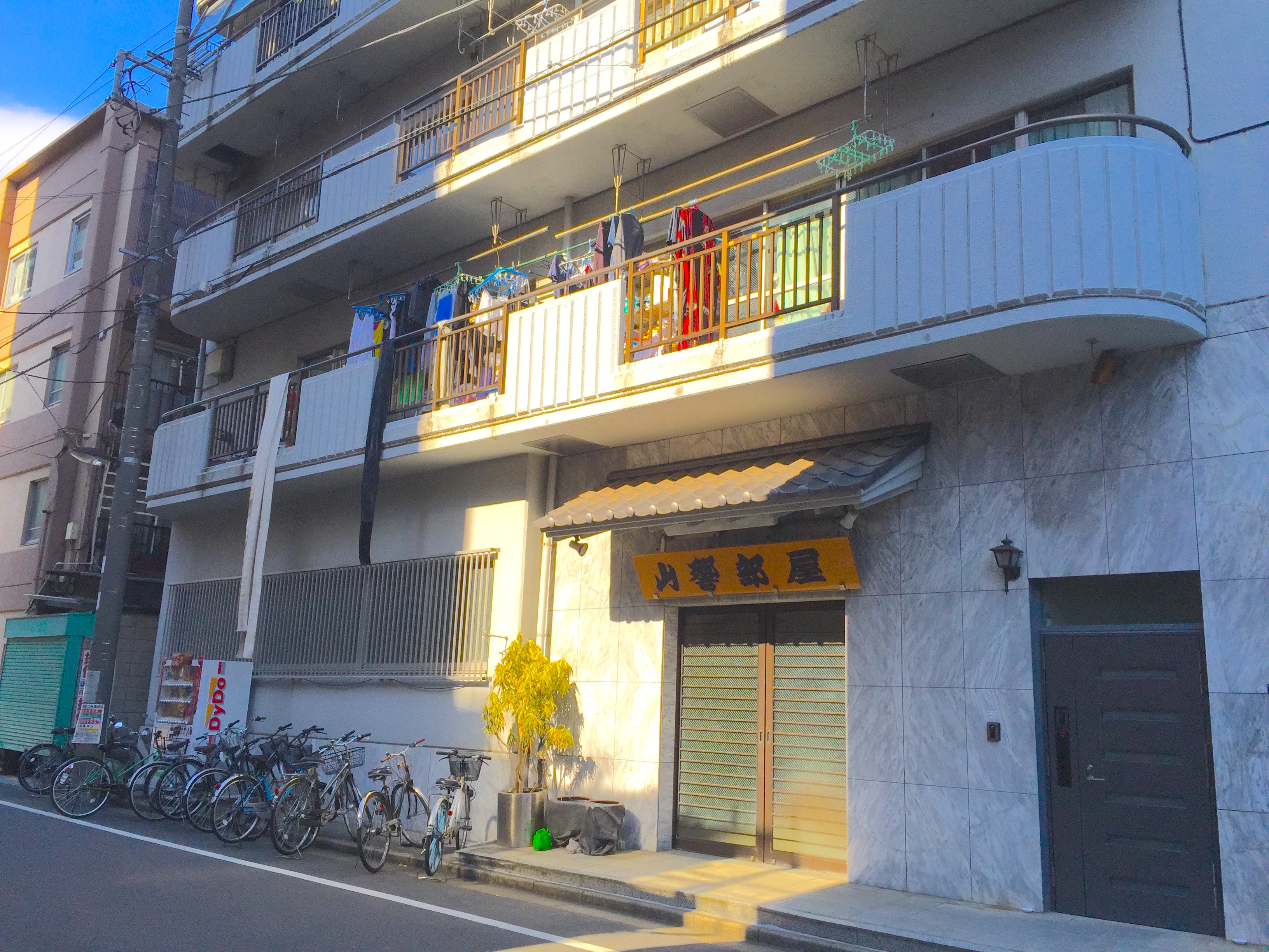 Taken outside the stable, January 2016